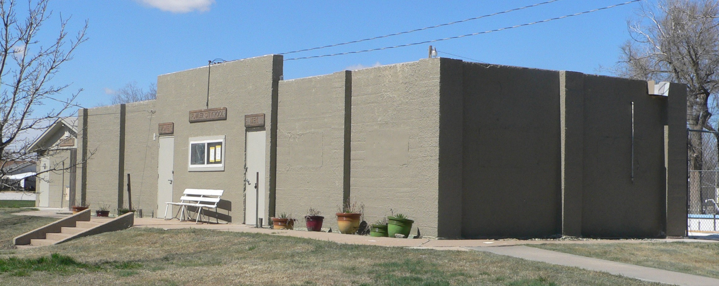 Bathhouse at municipal swimming pool in Fowler, Kansas; seen from the southeast.